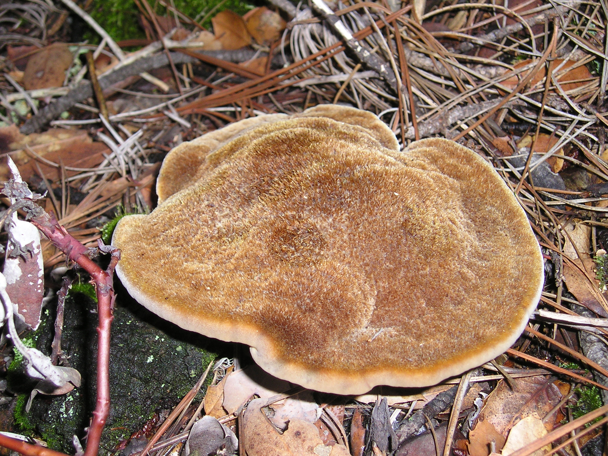 A fruit body of the fungus Onnia tomentosa (Fr.) P. Karst. Specimen photographed in Canyon, Moraga, Contra Costa Co., California, USA.